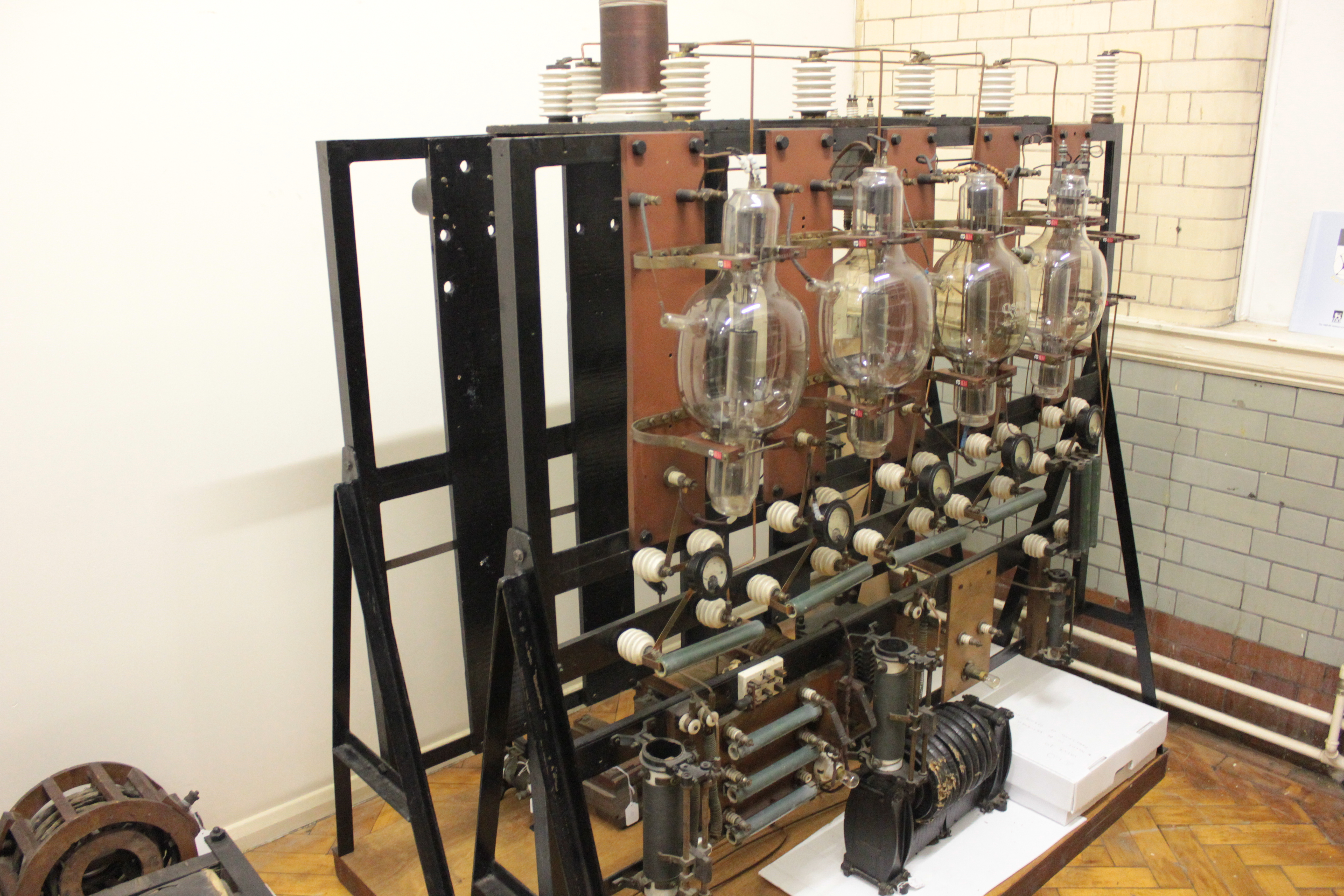 A British radio transmitter from the early 1920s, used for some of the first radio broadcasts by the British Broadcasting Corporation (BBC). The four early power triode valves (vacuum tubes) used in parallel look similar to 4 kW Marconi MT1 valves, developed by Marconi Co. engineer H. L. Round, which operated with 12,000 volts on the plate (anode). Blythe House Science Museum stores tour, London